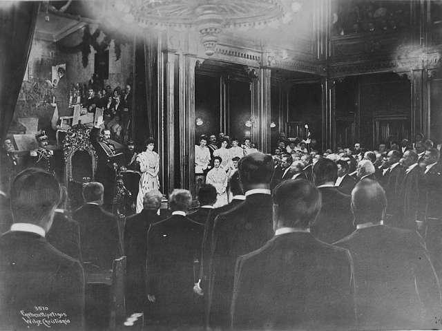 The swearing in as king of Haakon VII, the first king of Norway following the 1905 dissolution of the union with Sweden. Haakon VII is sworn in in the Norwegian Parliament Building with Queen Maud on his left hand side.